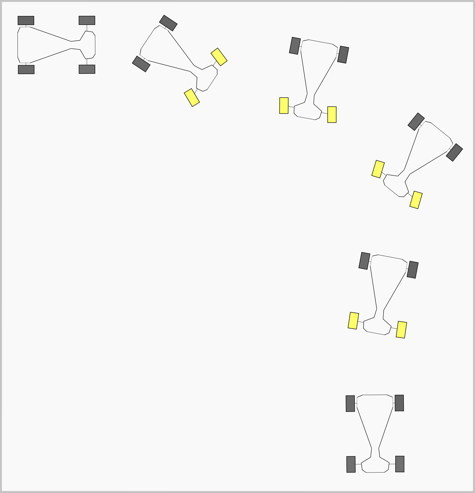 Opposite lock.